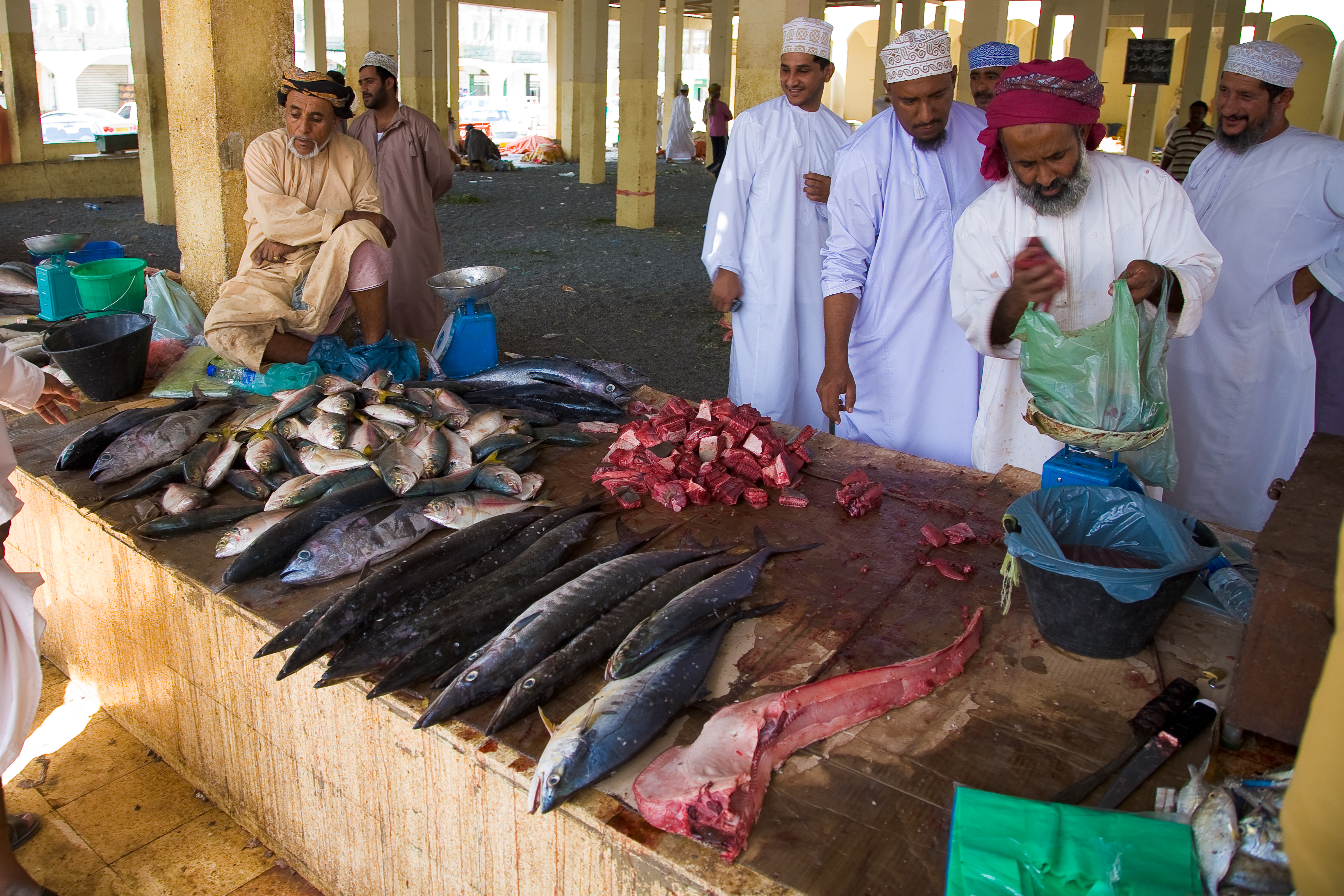 Fish in a market in Sinaw, Oman